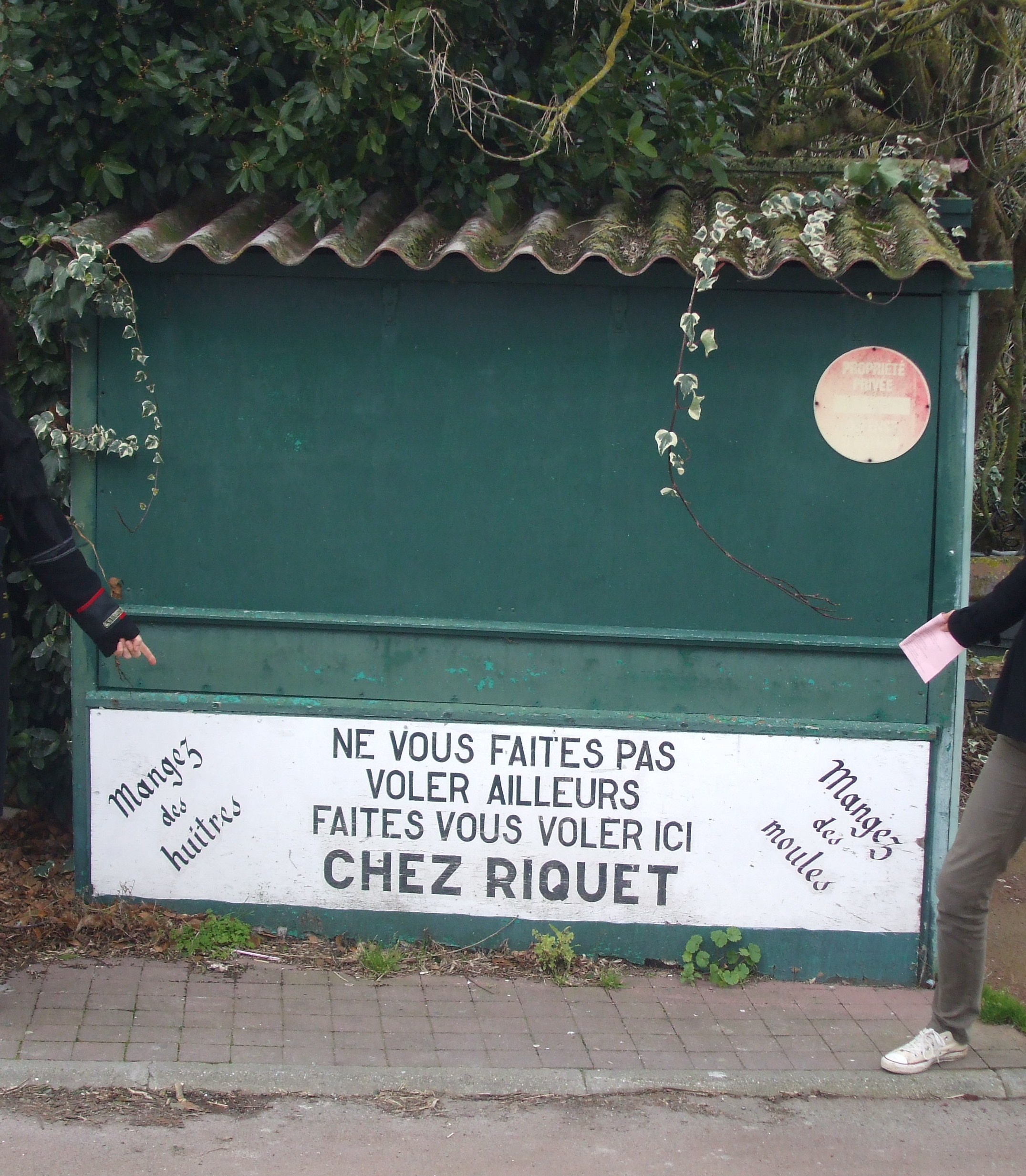 Dont be stolen elsewhere, be stolen here, Riquet. Eat oysters, eat mussels Humor sign, pointe de la Fumée, Fouras, Charente-maritime, France